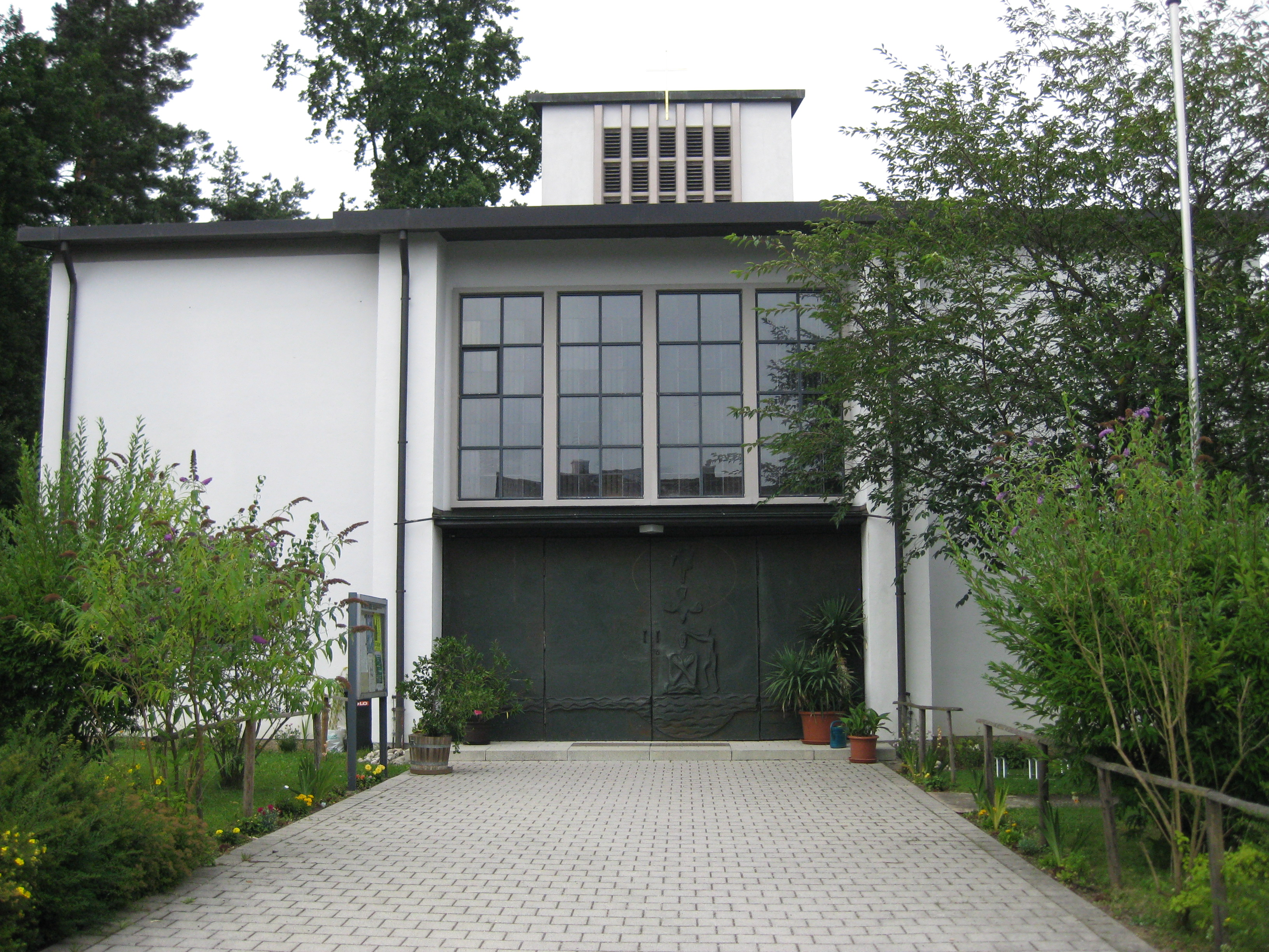 catholic 'Church of the most holy trinity', Bindlach